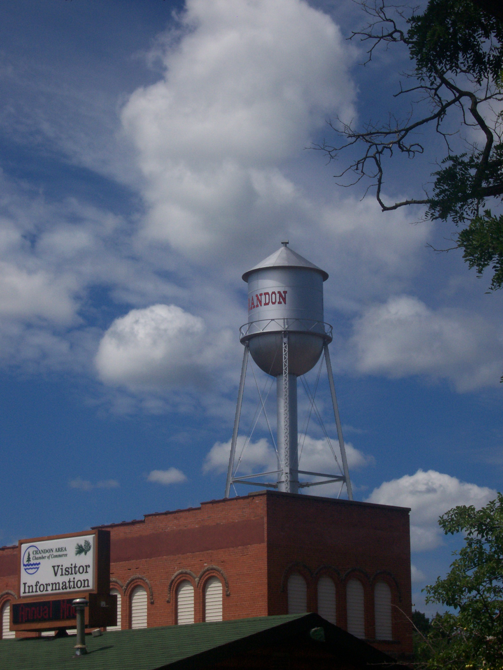 Looking north at the water tower for Crandon, Wisconsin, on U.S. Route 8 / Wisconsin Highway 32 / Wisconsin Highway 55.